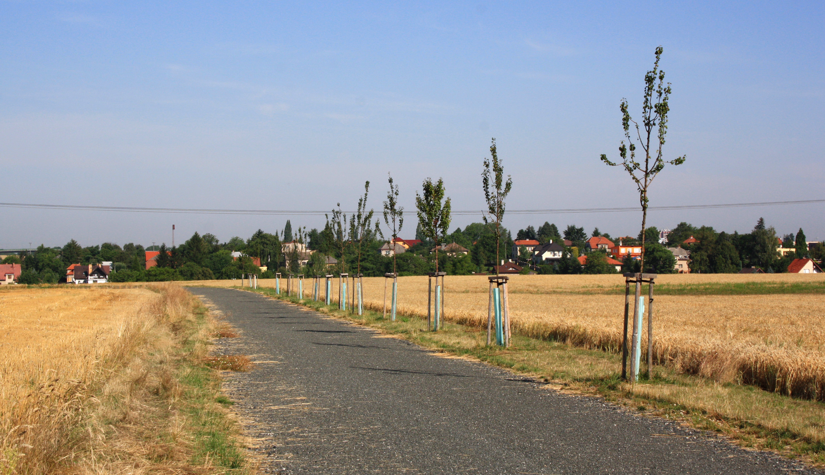 East view to Polepy village, Czech Republic